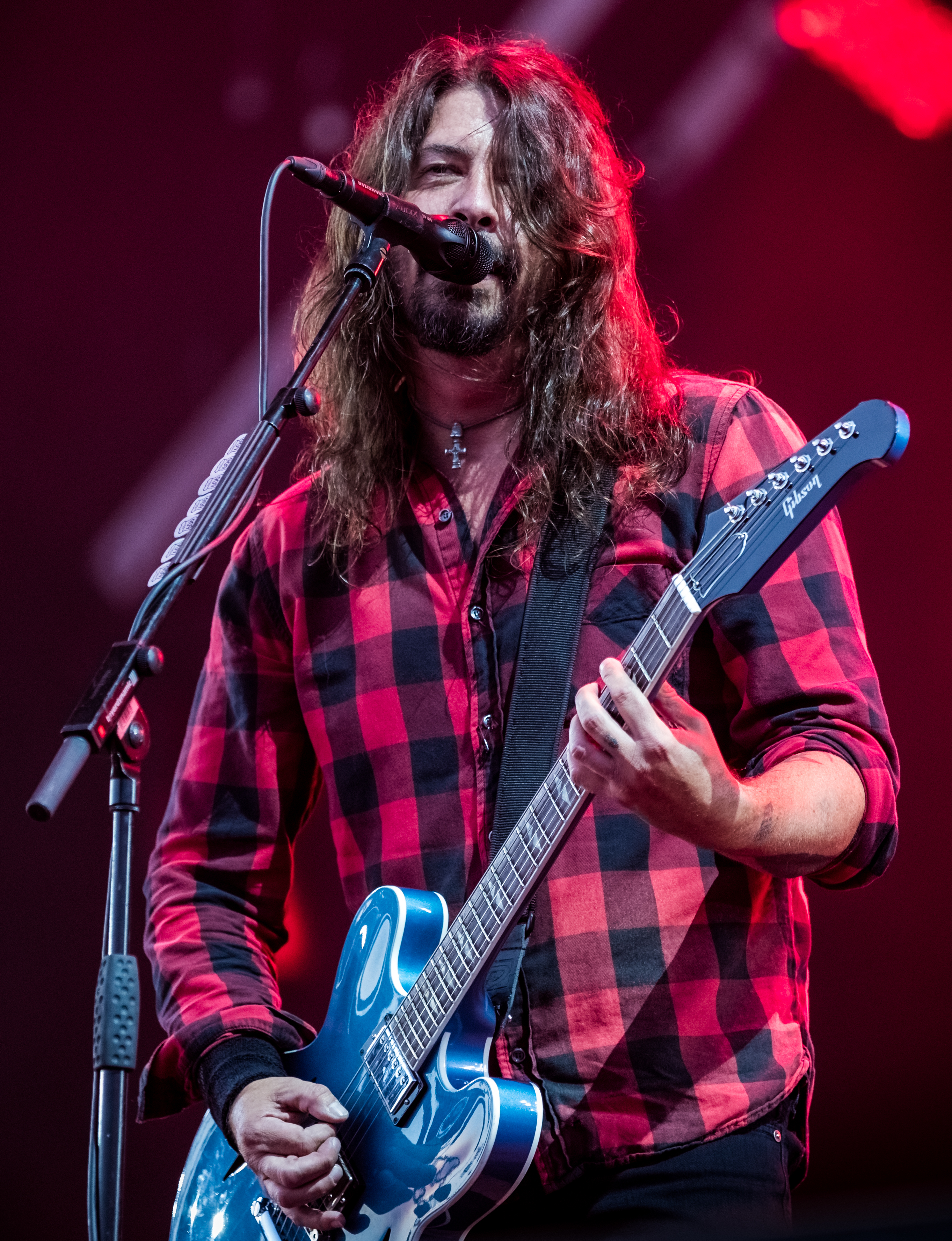 Foo Fighters - Rock am Ring 2018